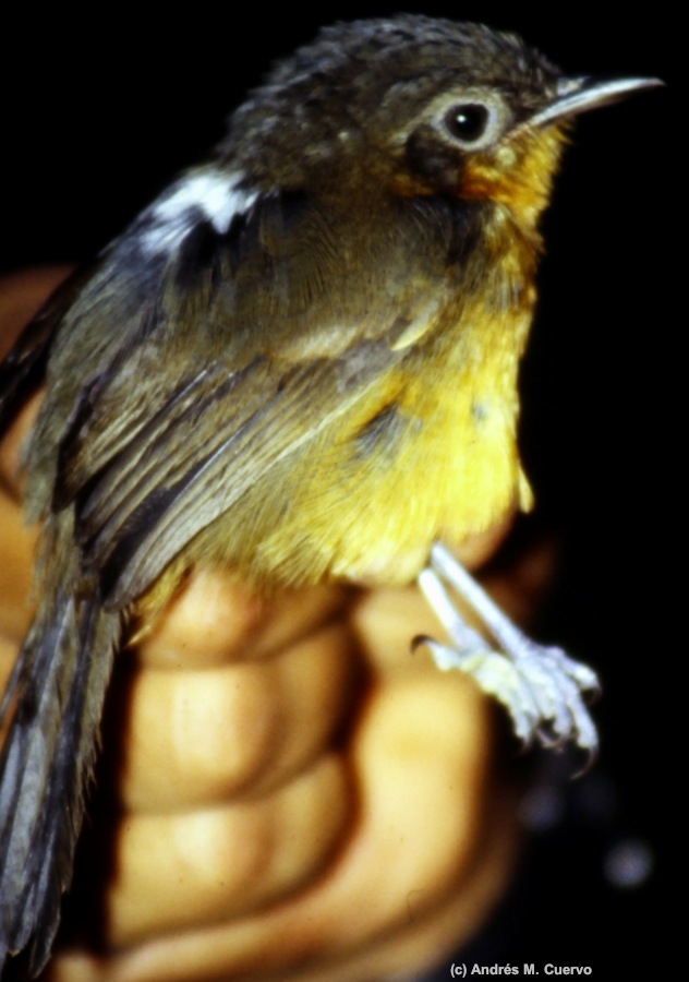 Juvenile males in Cercomacra parkeri are sort of intermediate in external appearance between adults of both sexes. This montane antbird is very common in the northern end of the Central cordillera of Colombia, in Dept. Antioquia.